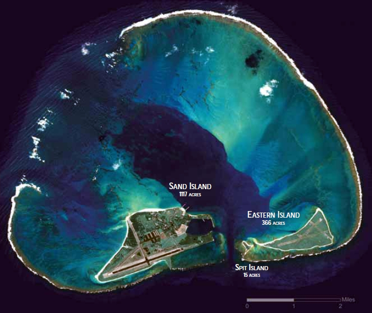 Aerial photo of Midway Atoll.